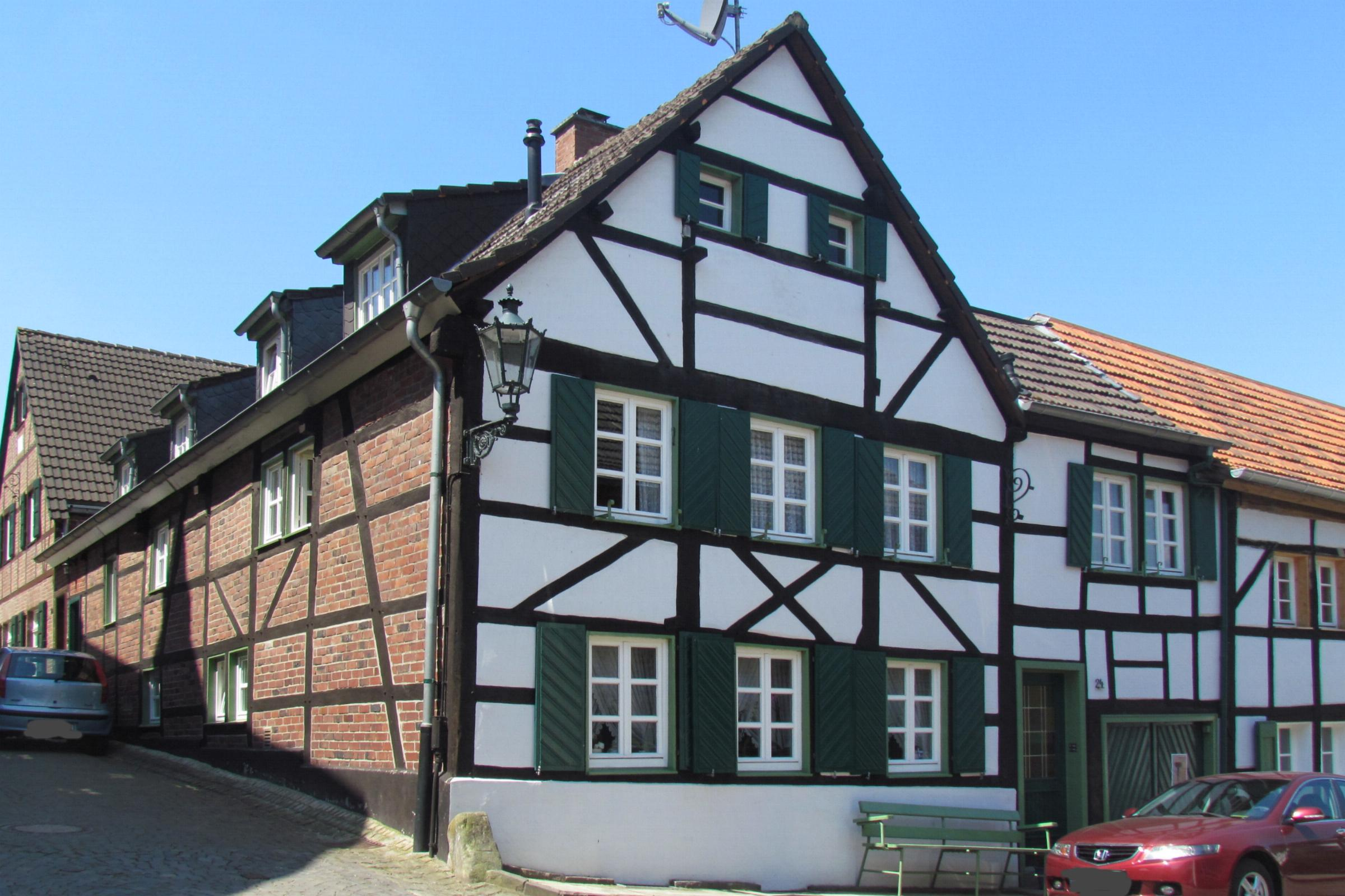 This is a photograph of an architectural monument.It is on the list of cultural monuments of Korschenbroich